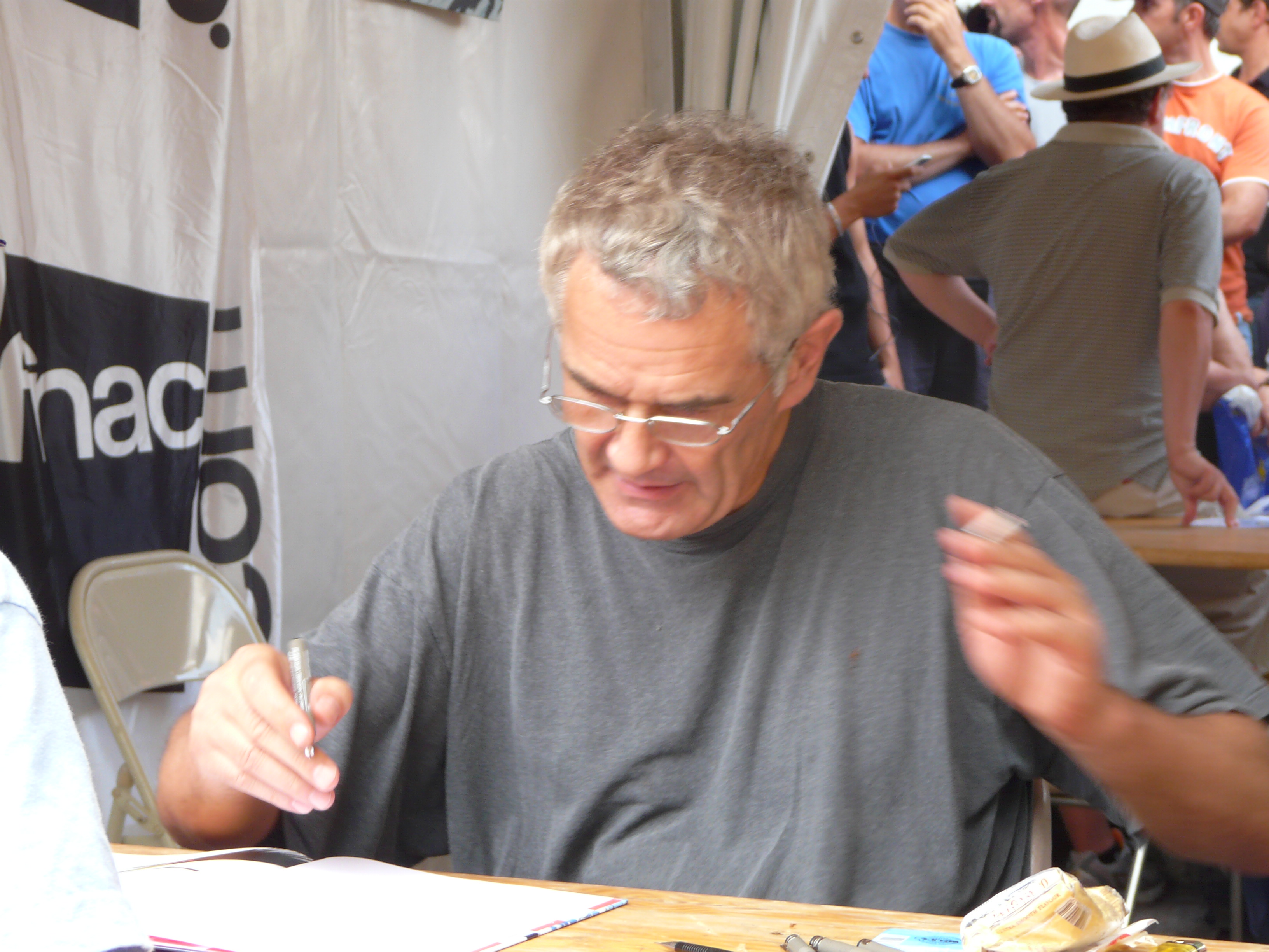 Photographs taken during the International Comic Festival of Sollies Ville, France